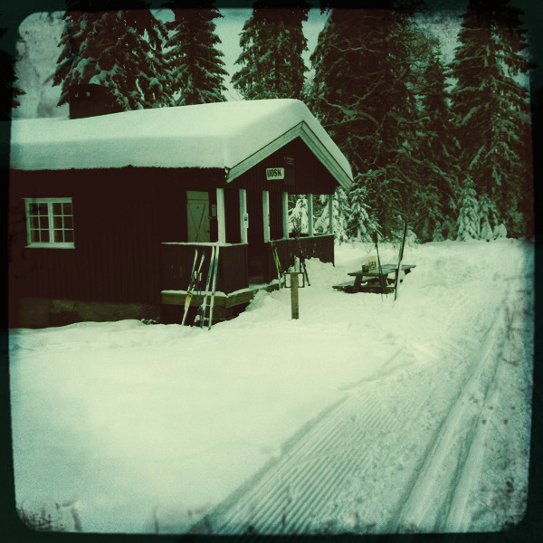 Smedmyr cabin